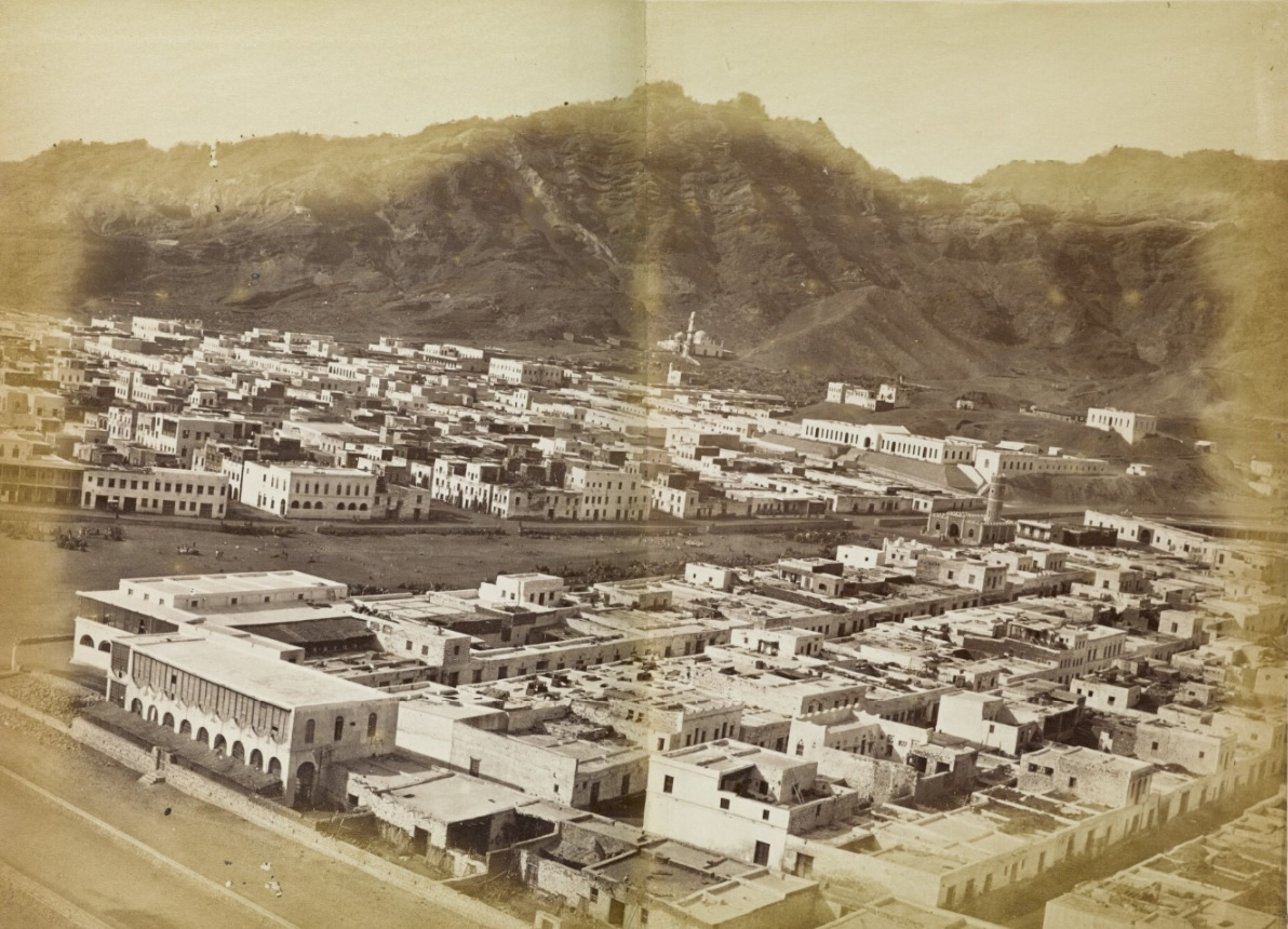 The district of Crater in Yemen's capital Aden in the mid-1870s. Cropped from original.